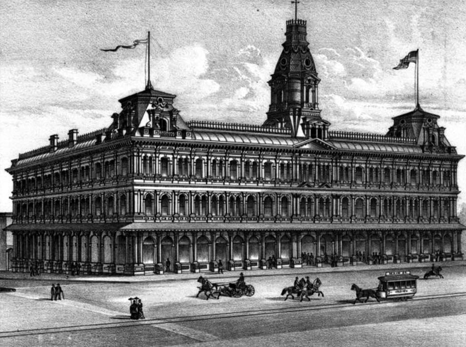 Baker Block, Los Angeles, around 1880